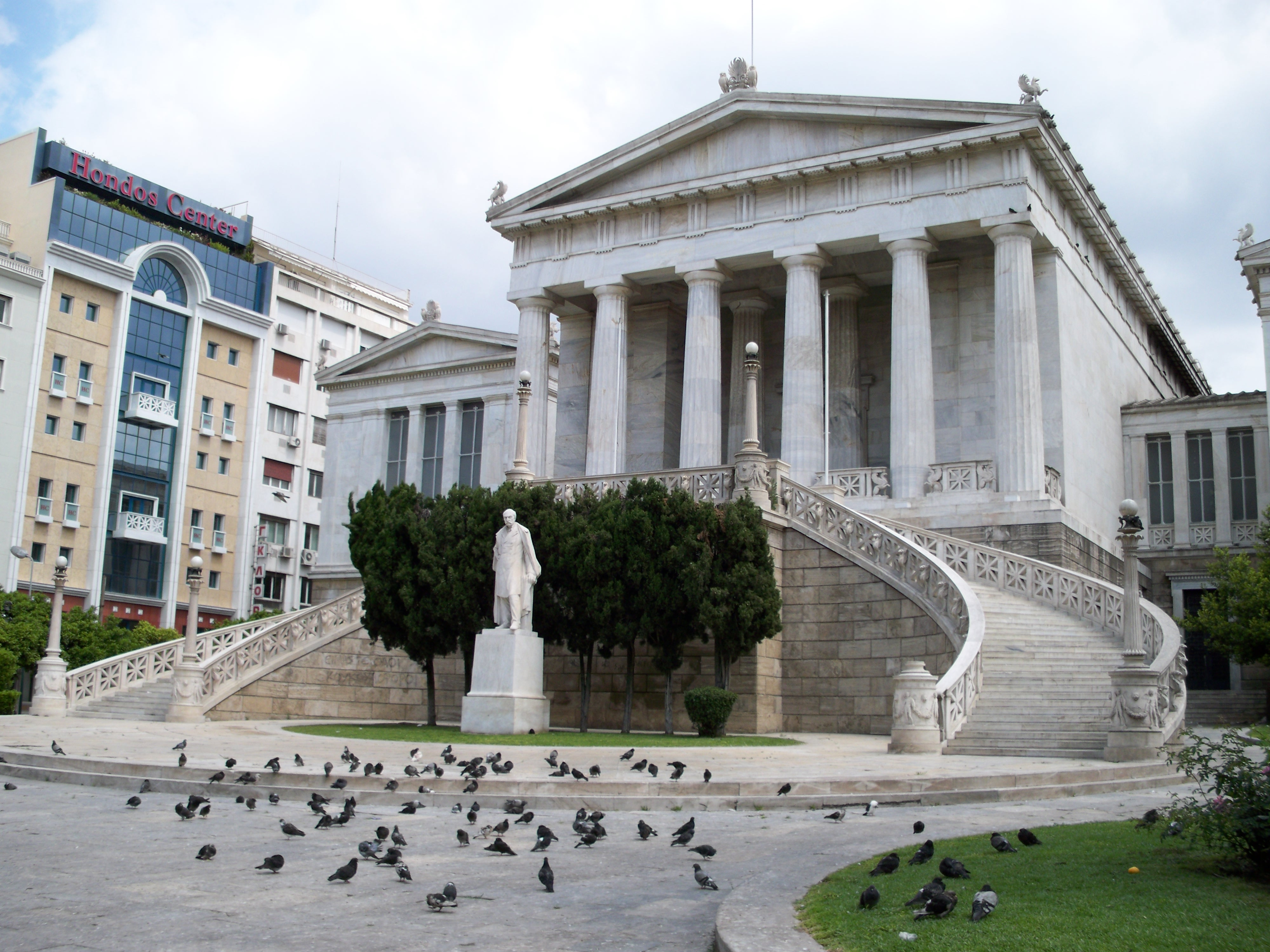 The main building of the National Library of Greece in Athens. It was designed by Theophil von Hansen and was completed in 1902.